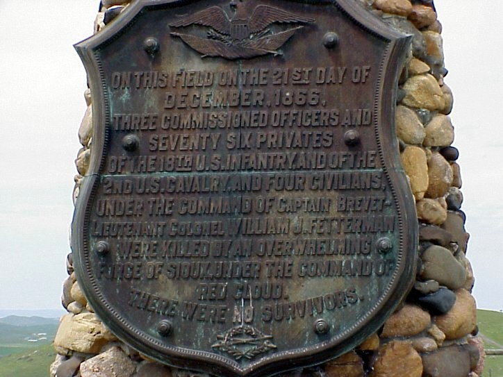 This plaque is at the scene of the so-called "Fetterman Massacre" in Wyoming